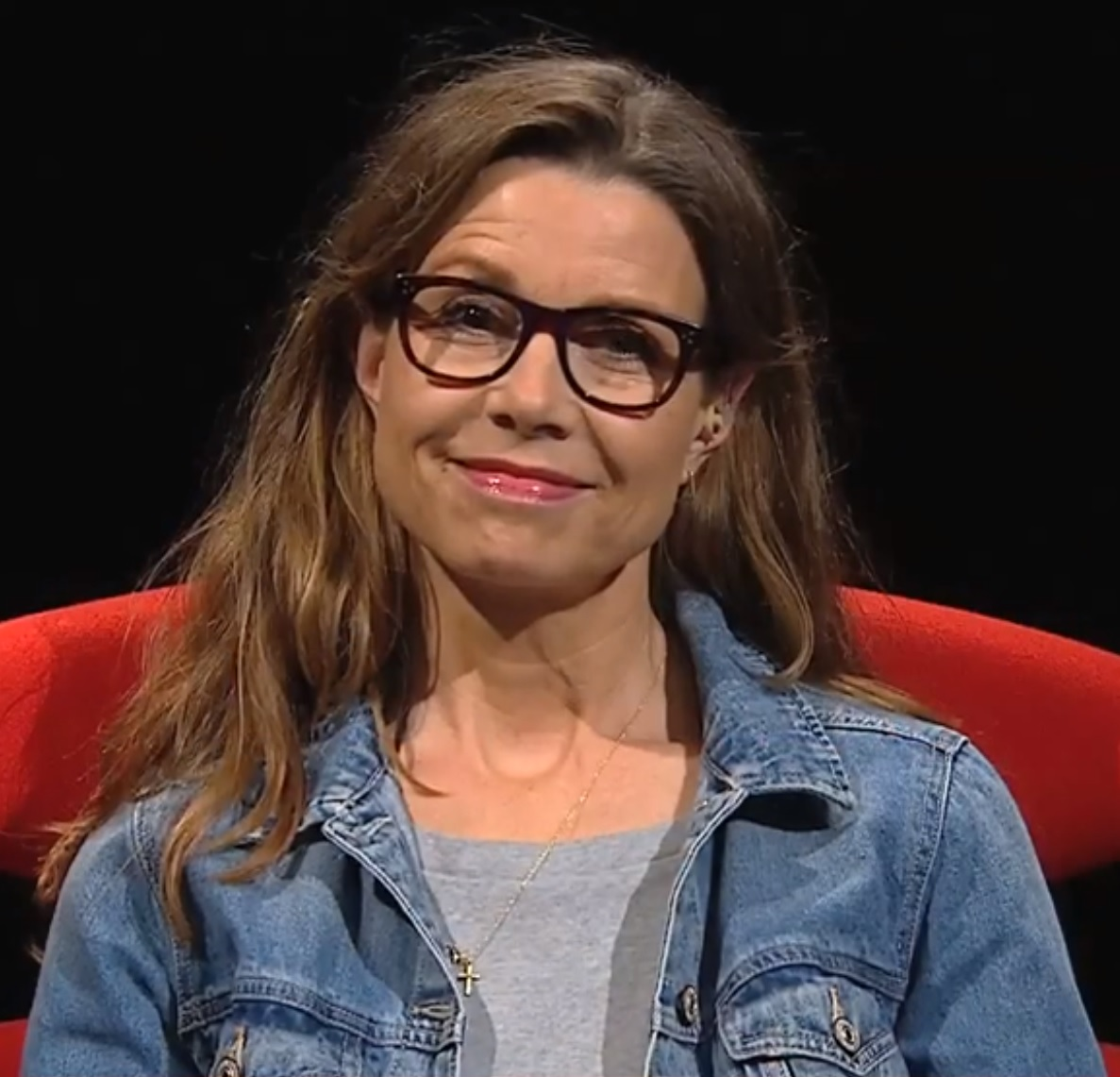 Pernille Weiss, candidate for European Parliament from Denmark's Conservative Party, on Danish television program Spørg Direkte.